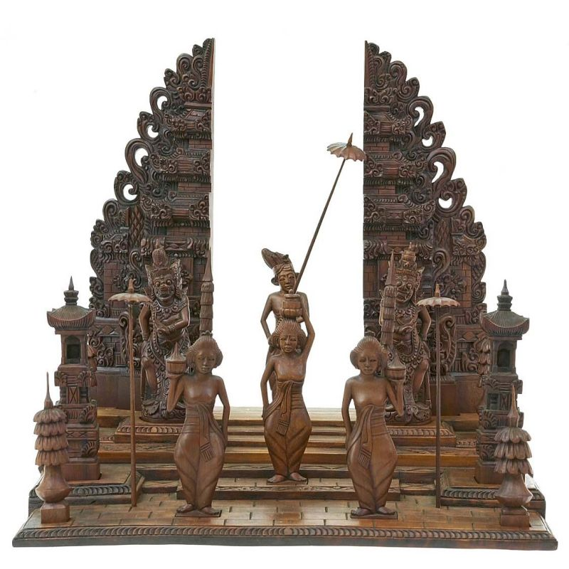 Wooden model of a so called "split" temple gate